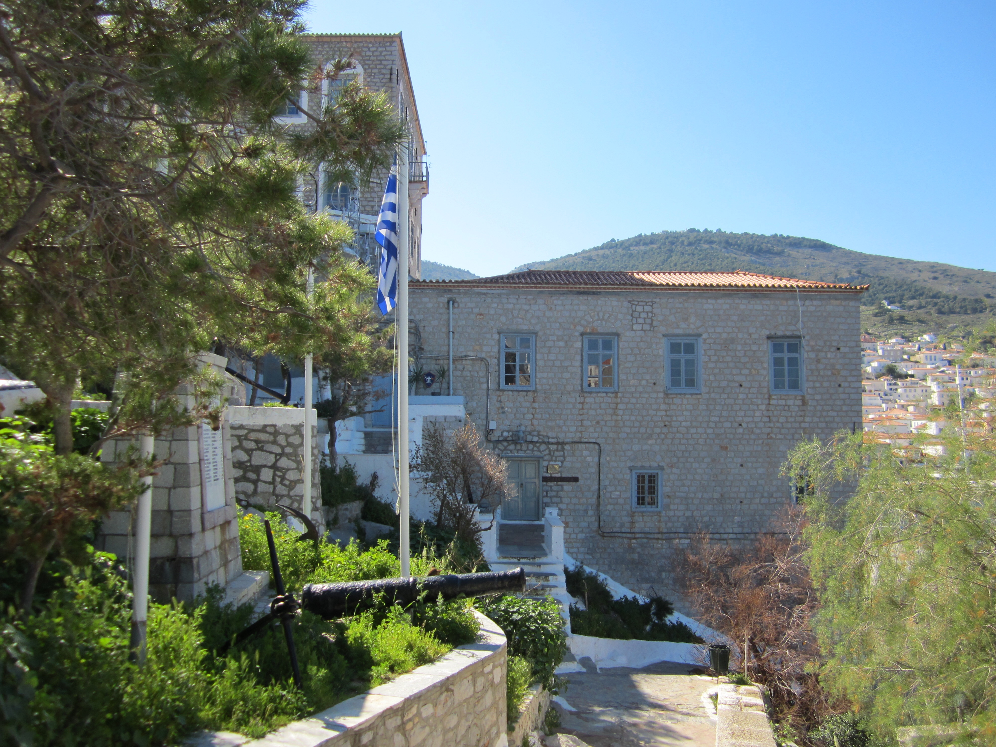 Marine Academy of Hydra